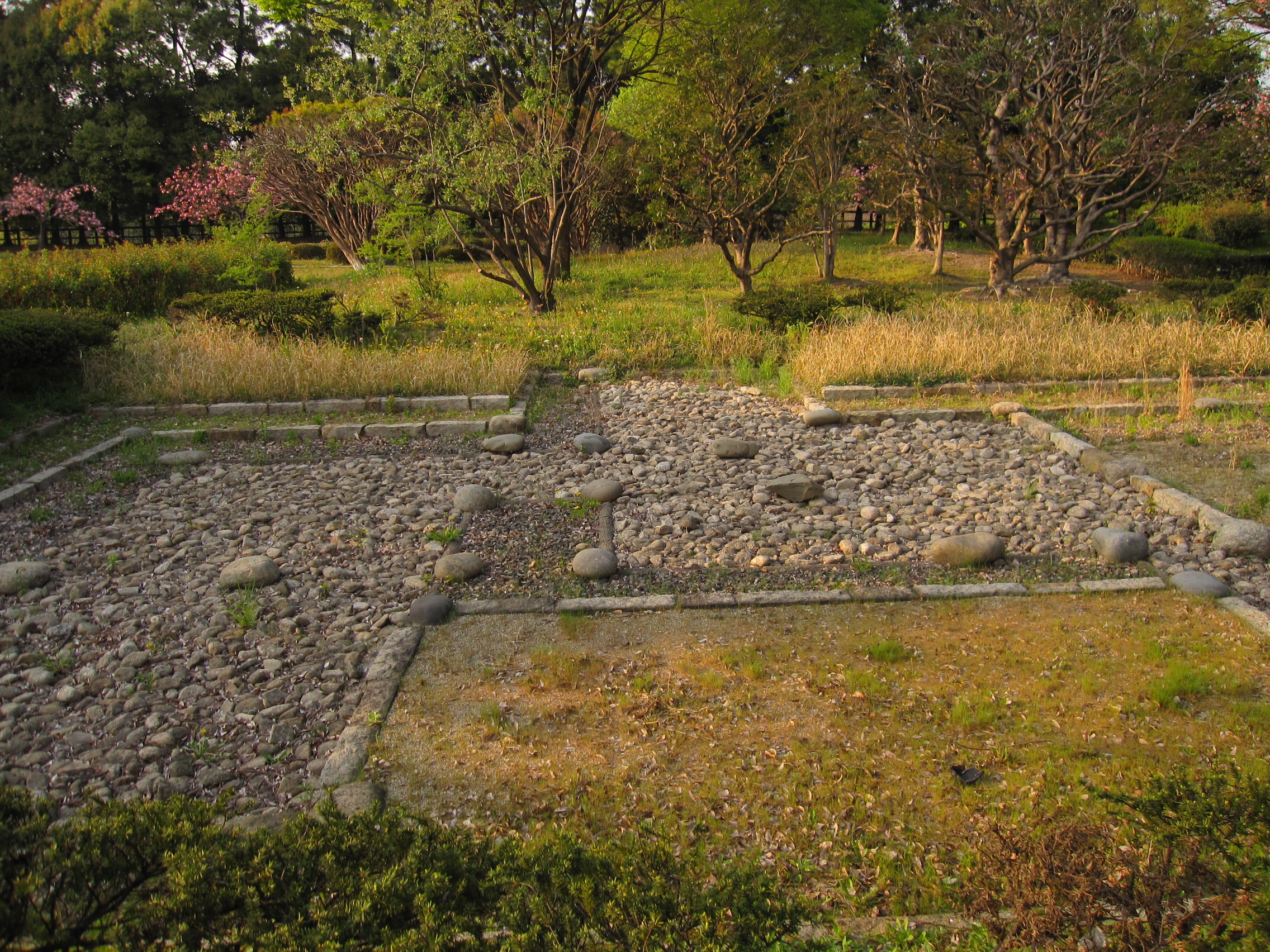 The Soketsu-tei, the largest one of the former teahouses of Nagoya Castle, was built in the Sukiya style. In an excavation survey, a site almost exactly matching that of the Soketsu-tei as depicted in Oniwa Ezu, the historic plan of the old castle garden, was identified. Today, cobble stones are placed to mark where tatami mats would have been, rubble and plaster where the hallway was, and gravel on the other surfaces for an easy understanding of the original structure.